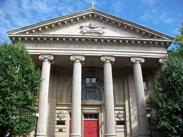 Saint Nicholas Greek Orthodox Cathedral located at 419 South Dithridge Street in the Oakland neighborhood of Pittsburgh, Pennsylvania, on September 17, 2011. The Cathedral was designed by architect Thomas Hannah, and built in 1904. Originally, it was the First Congregational Church until 1921, but it has been a Greek Orthodox Church since 1923. Currently, it is part of the Greek Orthodox Archdiocese of America, and more specifically the Greek Orthodox Metropolis of Pittsburgh. This Classical Revival style church building was added to the List of Pittsburgh History and Landmarks Foundation Historic Landmarks in 1982.